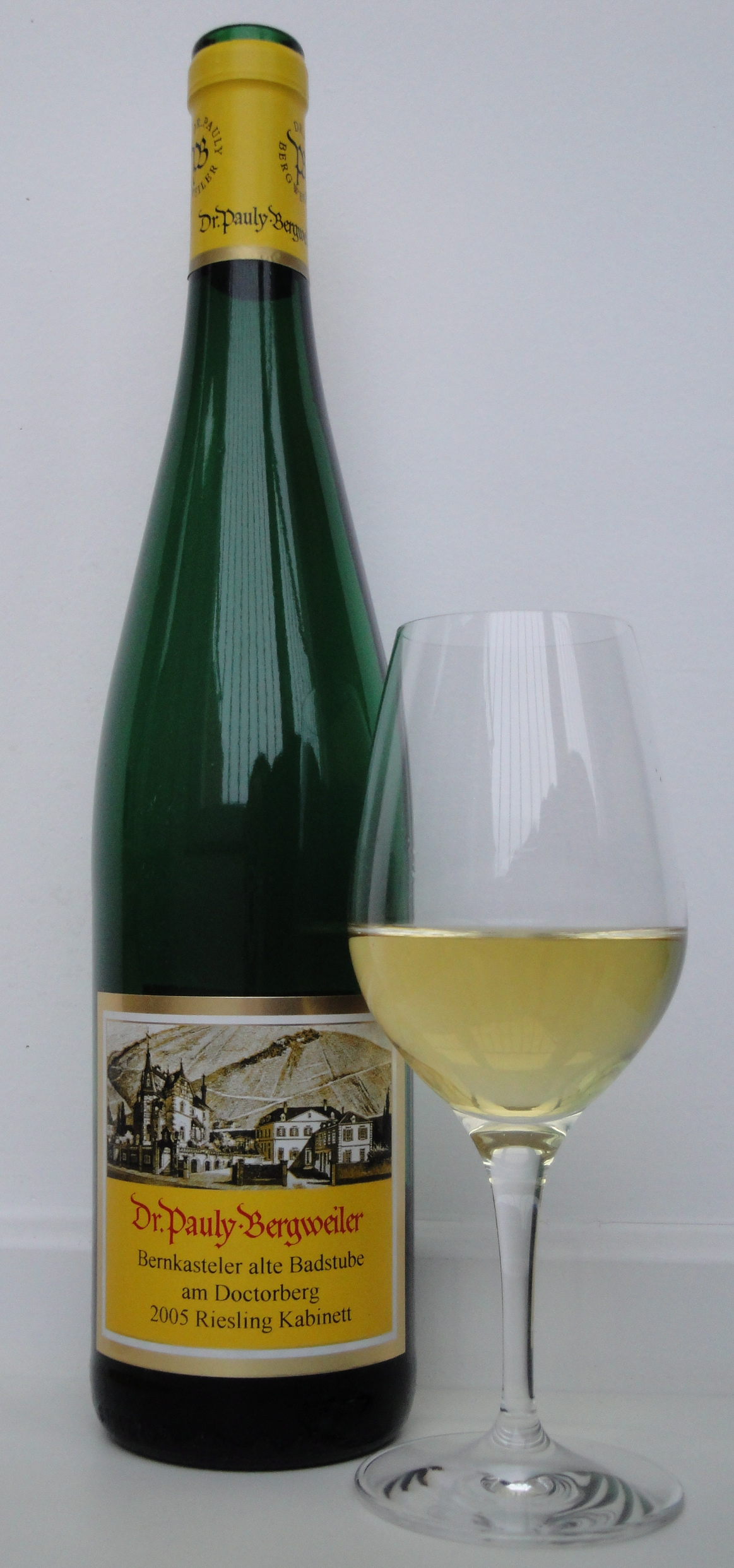 Bernkasteler alte Badstube am Doctorberg Riesling Kabinett 2005, a wine from Dr. Pauly-Bergweiler in the Mosel wine region